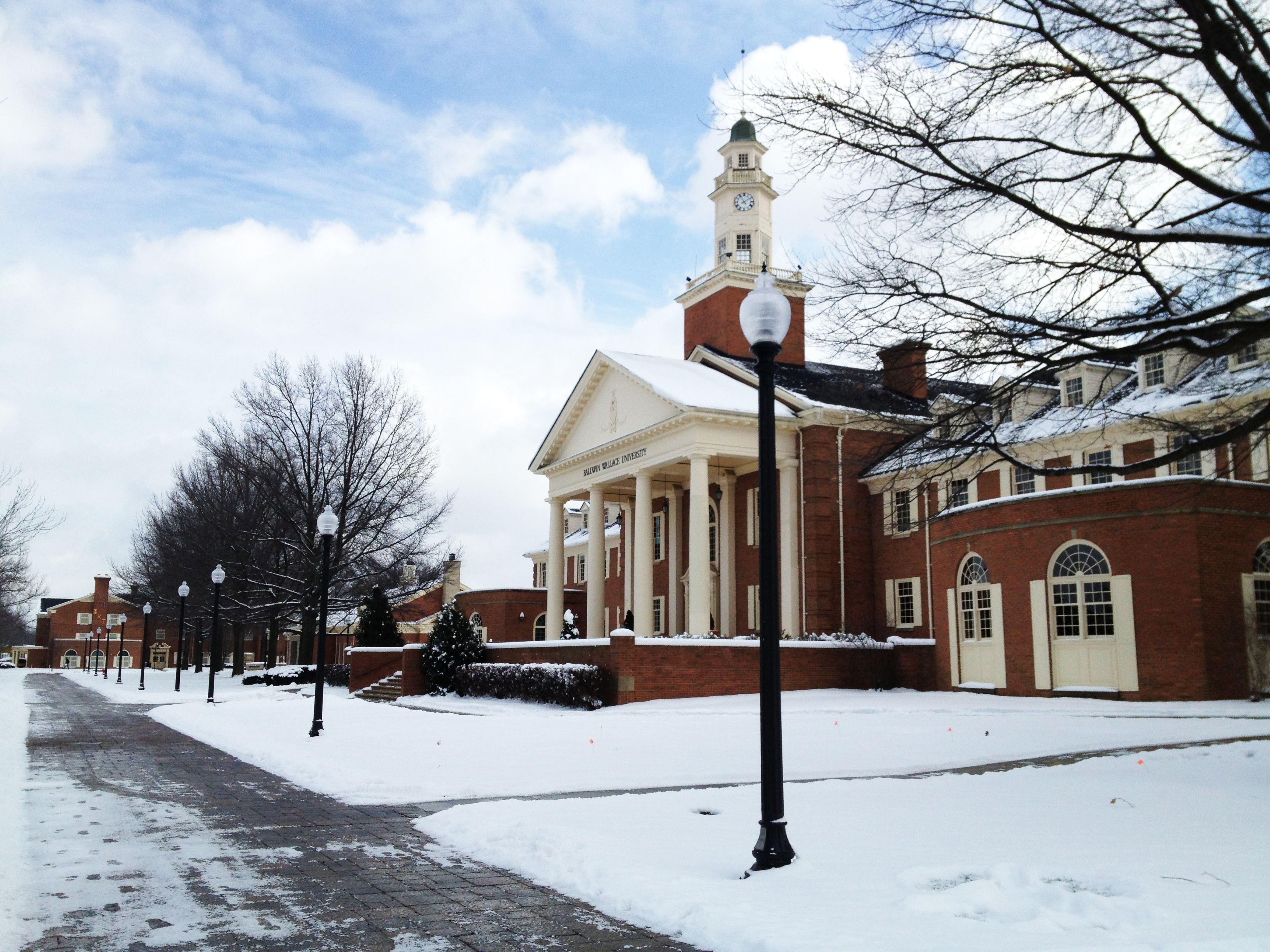 Strosacker Hall (college union)on Baldwin Wallace University south Campus